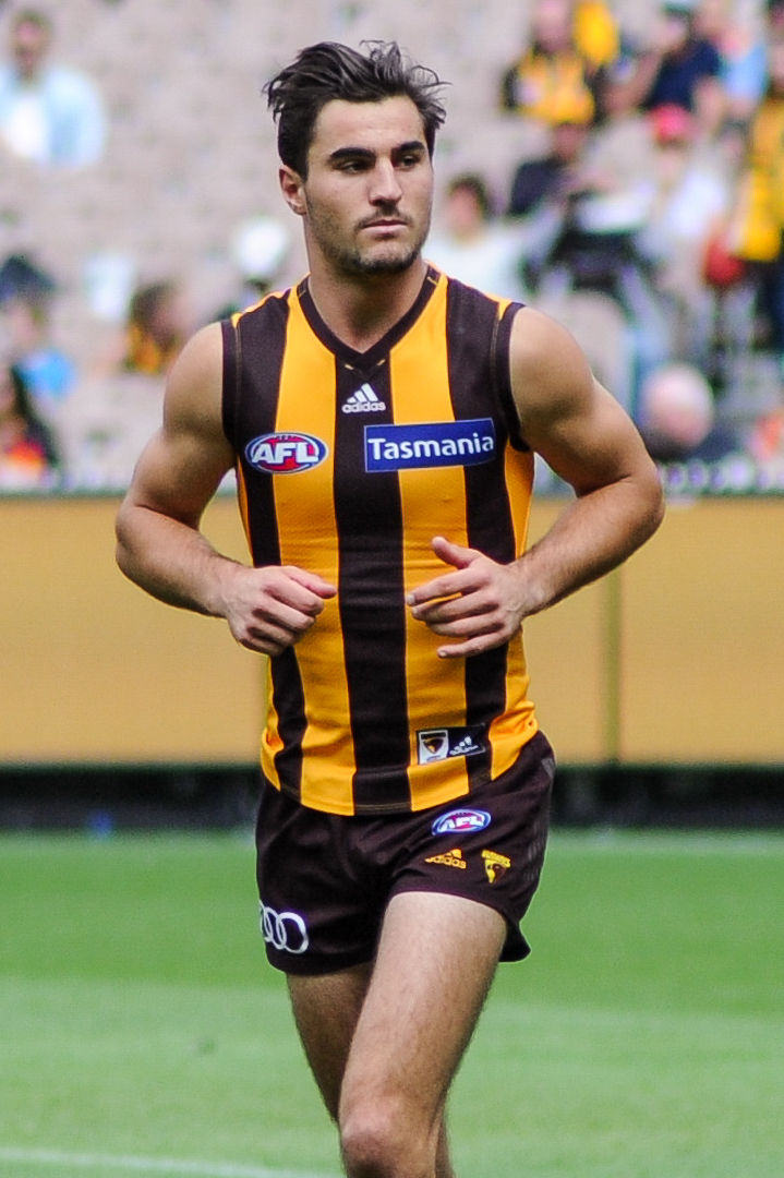 Kade Stewart during the AFL round two match between Hawthorn and Adelaide on 1 April 2017 at the Melbourne Cricket Ground in Melbourne, Victoria.